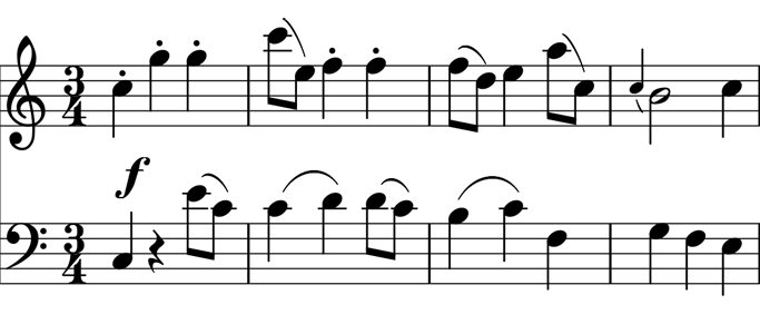 Joseph Haydn, Symphony No 33, third movement, first violin and bass, bar 1-4